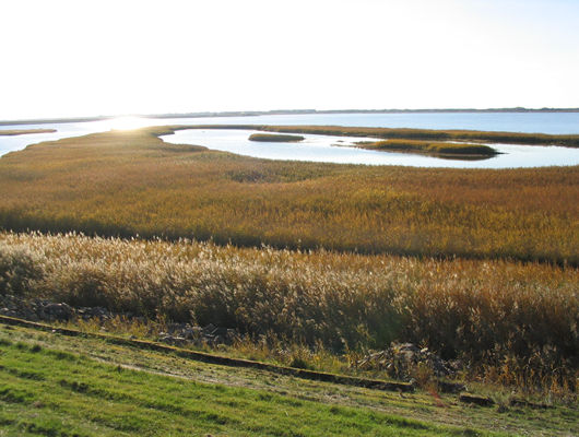 Rantum Bassin at Sylt, Germany.